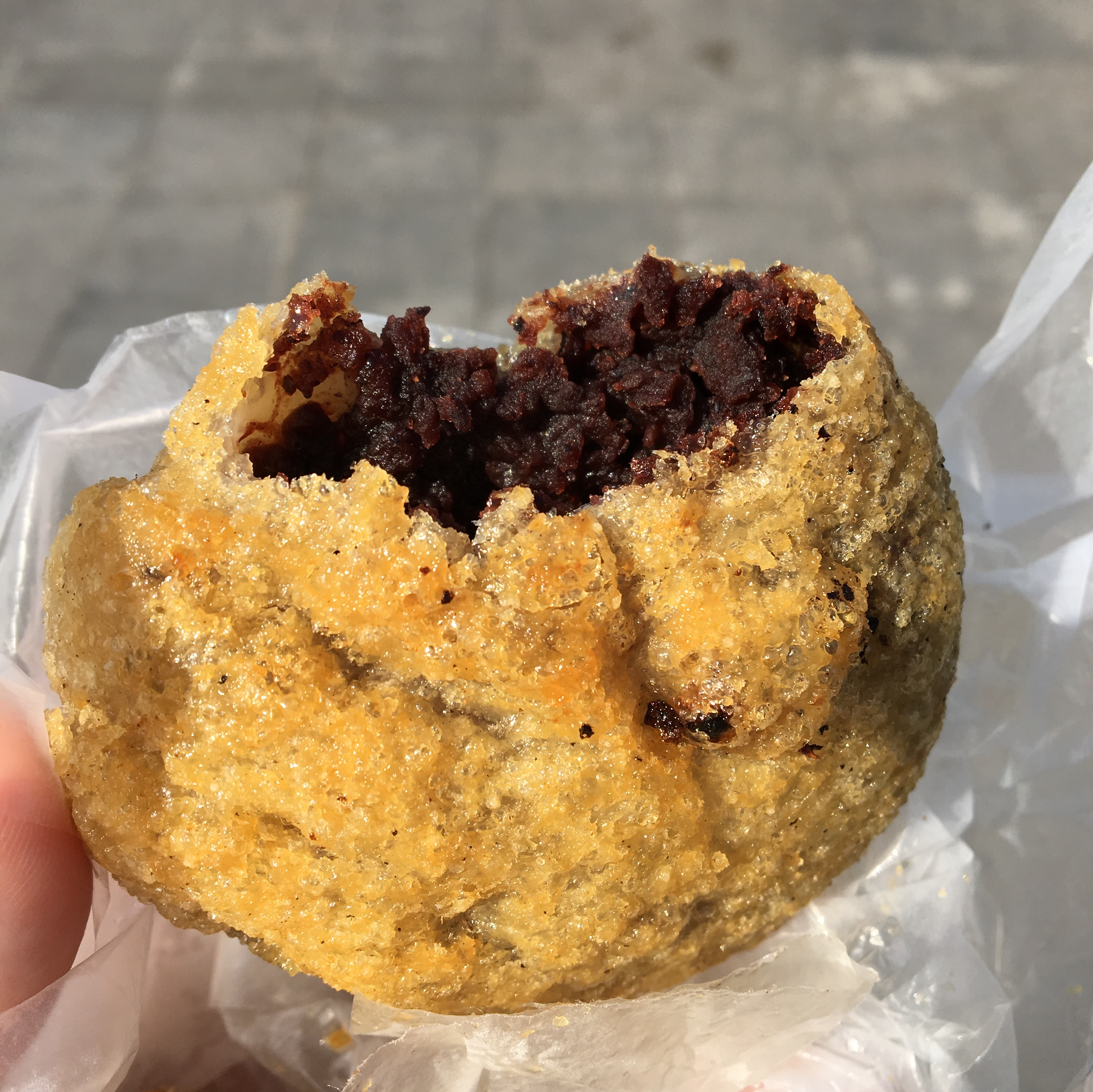 Zhagao(炸糕) in Beijing